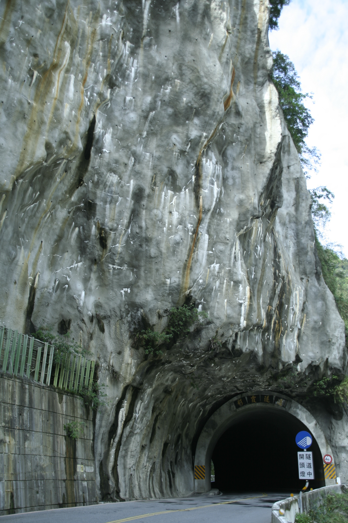 Caixia Tunnel below the high cliff on the Southern Cross Island Highway.